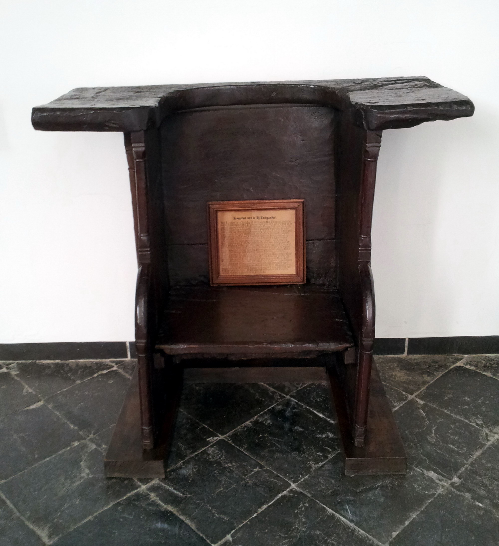 Borgloon-Kerniel, Belgium. The so-called prayer stool of Saint Ludgardis of Tongeren in the chapel of Mariënlof Abbey. The stool is considered the oldest piece of furniture in Belgium (early 13th c) and was originally kept in the nearby Abbey of Nonnenmielen, Sint-Truiden.